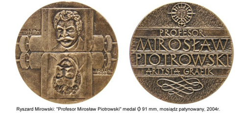 Illustration of a medal dedicated to Professor Richard Mirosłałowi Piotrowski by Mirowski